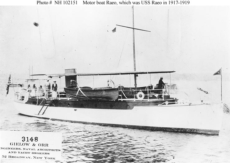 The motorboat Raeo prior to her service as the United States Navy patrol vessel